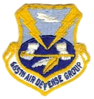 Emblem of the 665th Air Defense Group